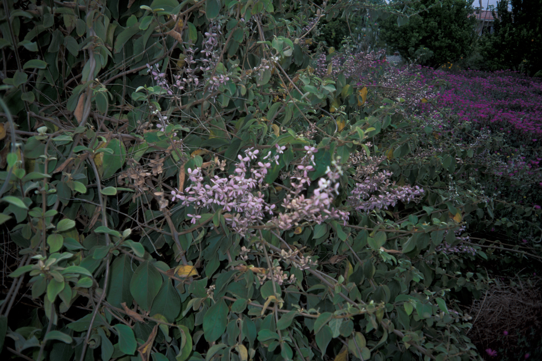 Congea tomentosa (habit). Location: Maui, Enchanting Floral Gardens of Kula